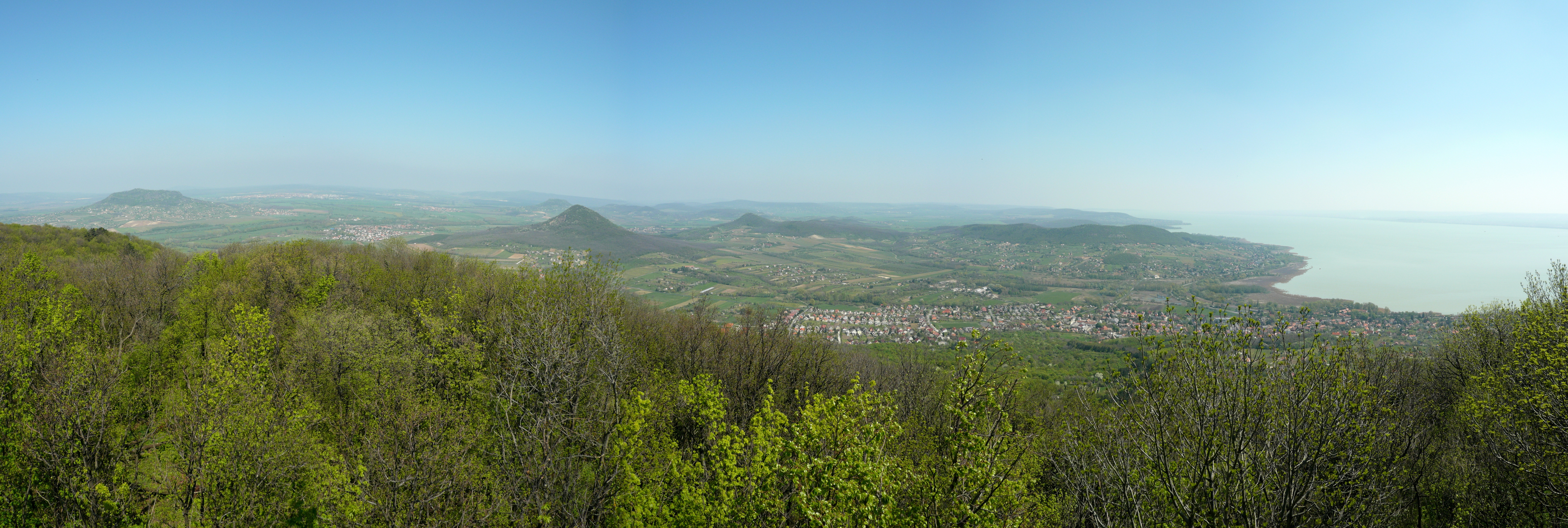 Panorama from Badacsony mountain, Hungary